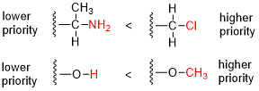 Cahn-Ingold-Prelog priority diagram